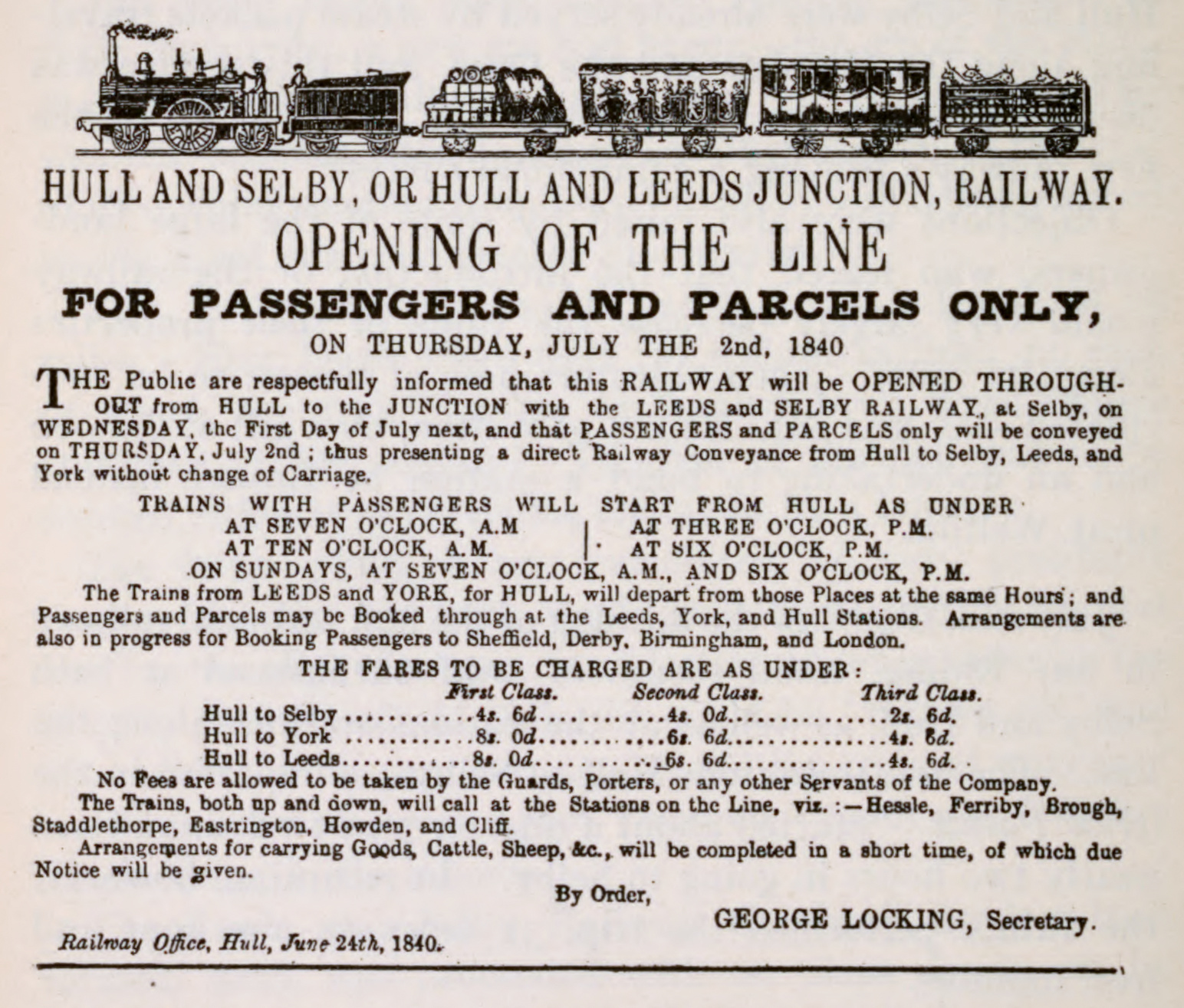 Pamplet announcing first train of the Hull and Selby railway c.1840